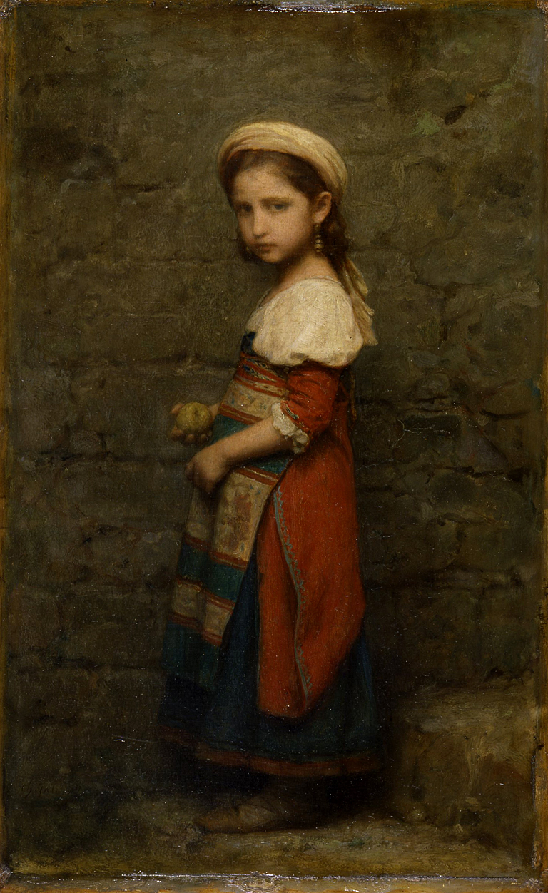 Jalabert, Paul Delaroche's most devoted pupil, was noted for his delicate style. This small painting of the young Italian model Maria Pasqua replicates a work entitled Maria Abruzeze that Jalabert exhibited at the Paris Salon in 1863.